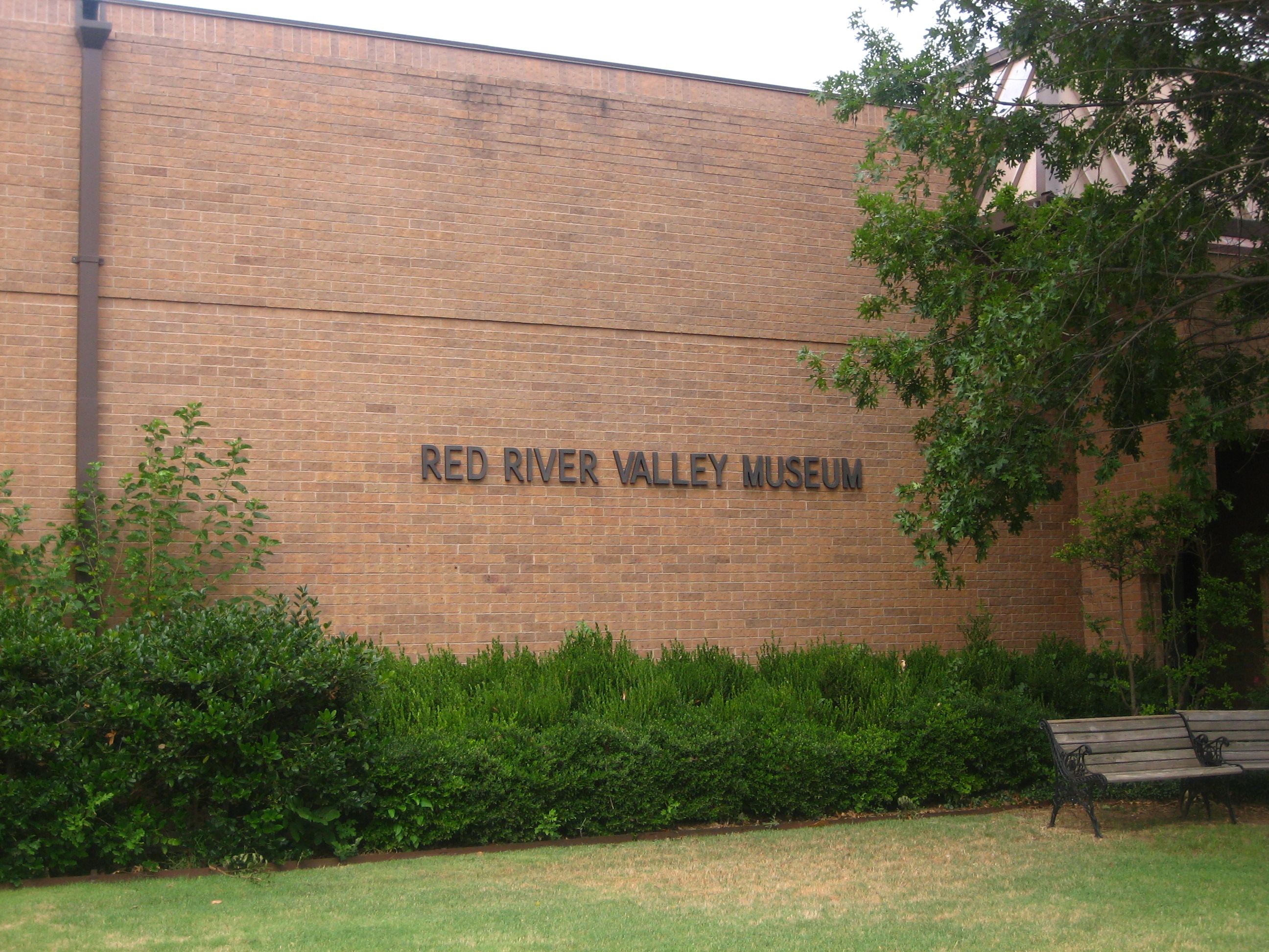 I took photo in July 2008.